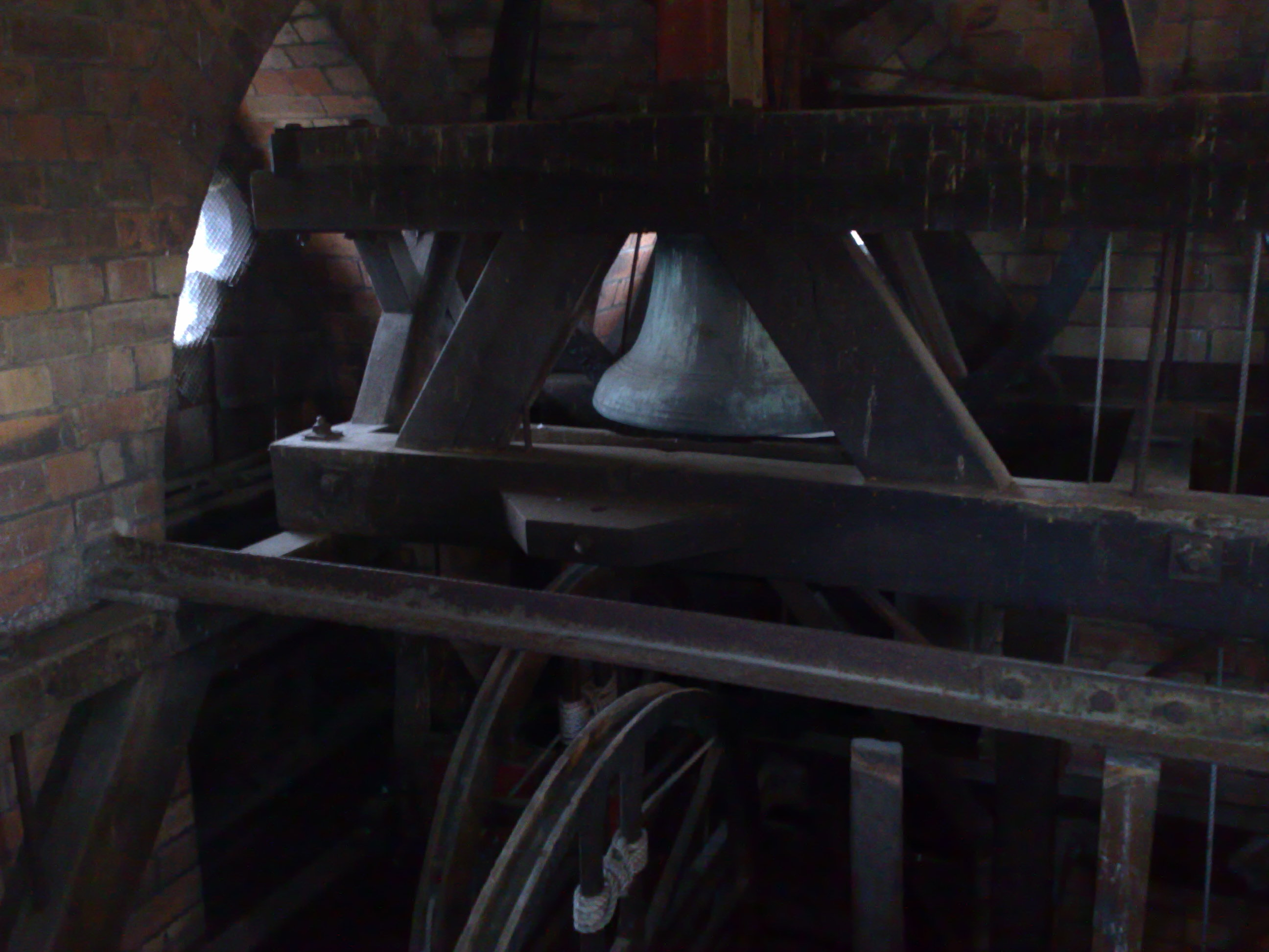 The third bell, plus the wheels of the first (treble) and second, inside the tower of St Paul's parish church, Daybrook, Arnold, Nottingham. The Whitechapel Bell Foundry cast the bells in 1897.